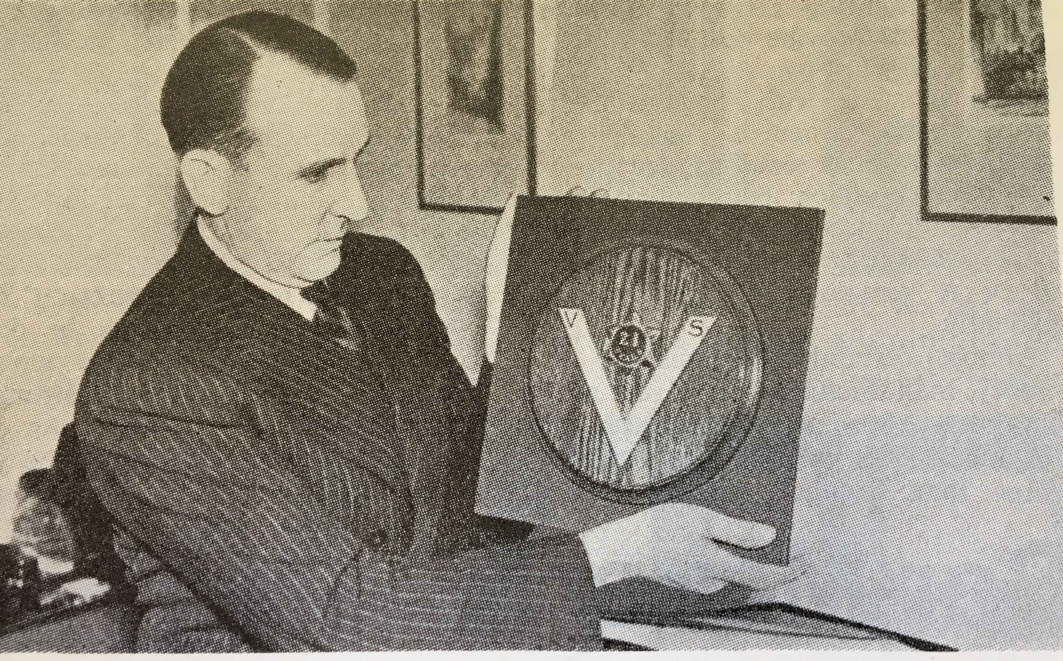 Founder & Secretary of the Company Of Veteran Motorists, Dick Wood, with the specially commissioned king size V-badge. Featured in the April 1949 edition of Good Motoring Magazine.